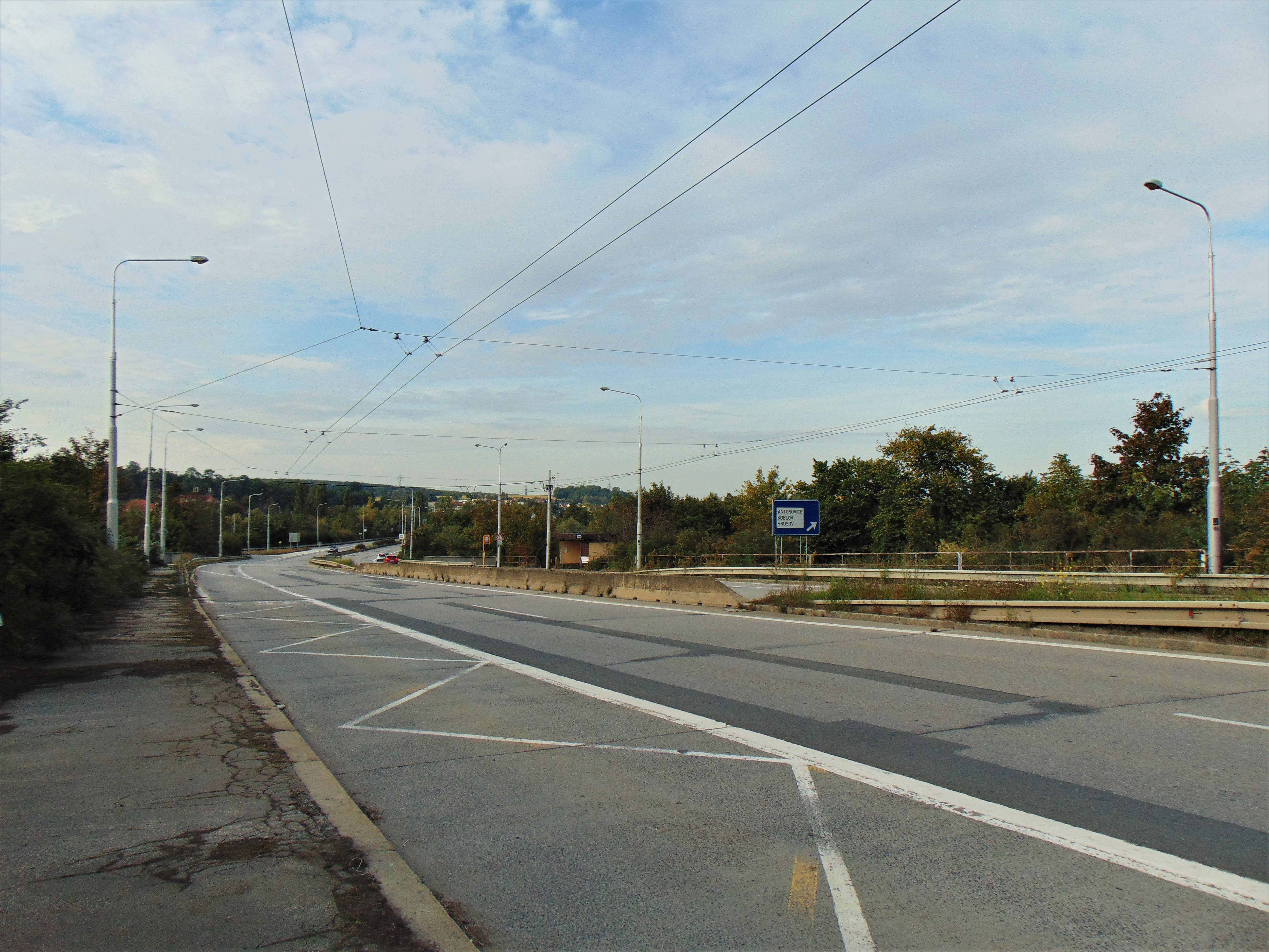 Bohumínská Street – a highway dividing Hrušov, a district of Ostrava.